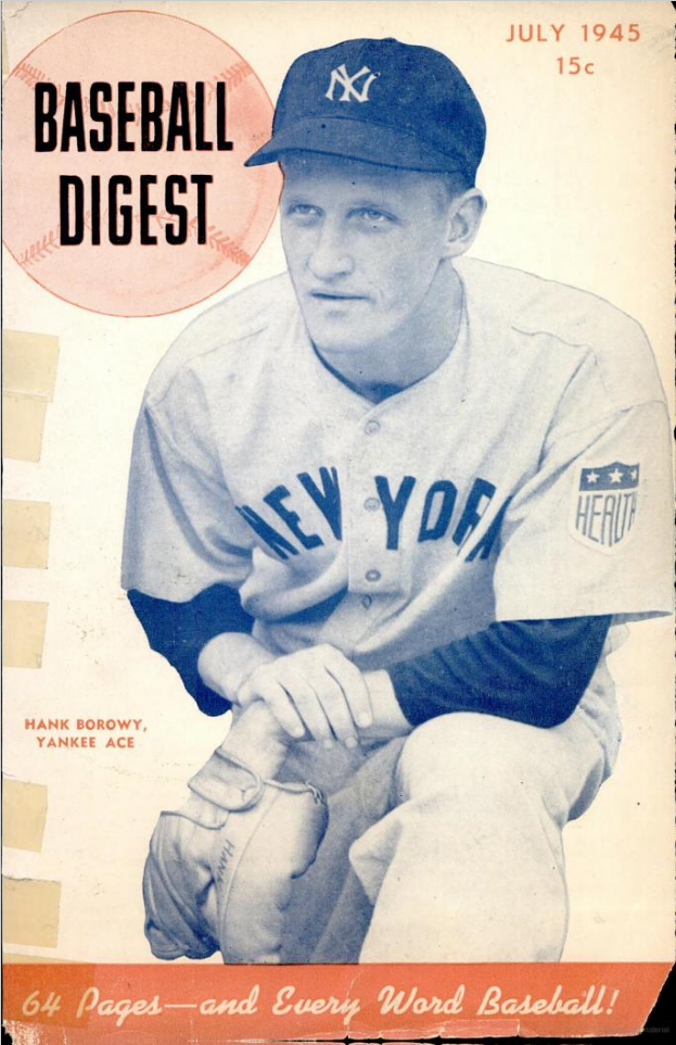 An image of Major League Baseball pitcher Hank Borowy.